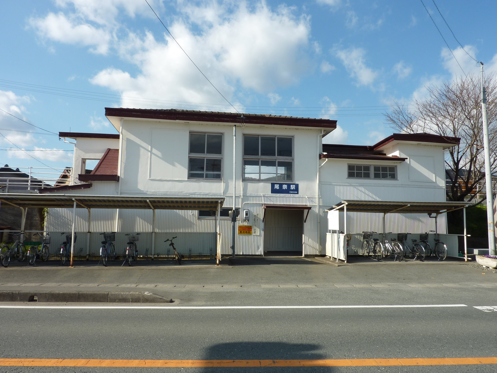 Ona Station on Tenryu Hamanako Line. (1170-4,Mikkabichoshimoona,Kita-ku,Hamamatsu-shi,Shizuoka-ken,JAPAN)